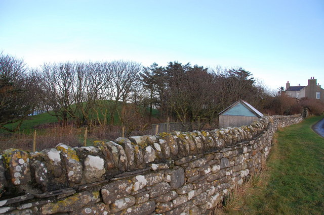 Chambered Cairn and Farm House The chambered cairn is the green hillock on the left. It was opened and excavated during the 1970's. Hundreds of skeletons, or parts os skeletons, were found.